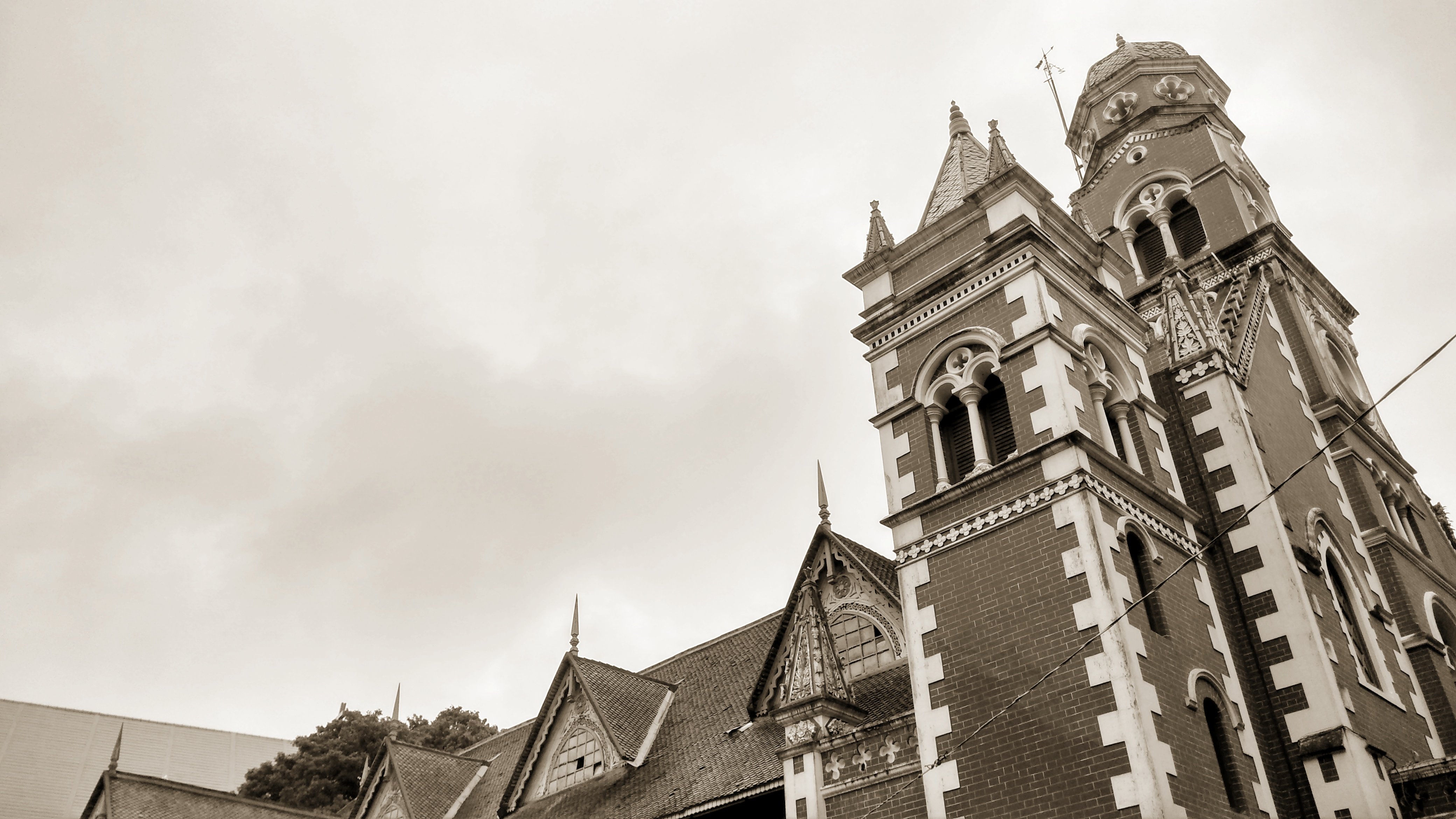 Victoria Jubilee Town Hall